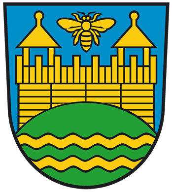 Coat of arms of Stolzenhagen, Part of Lunow-Stolzenhagen